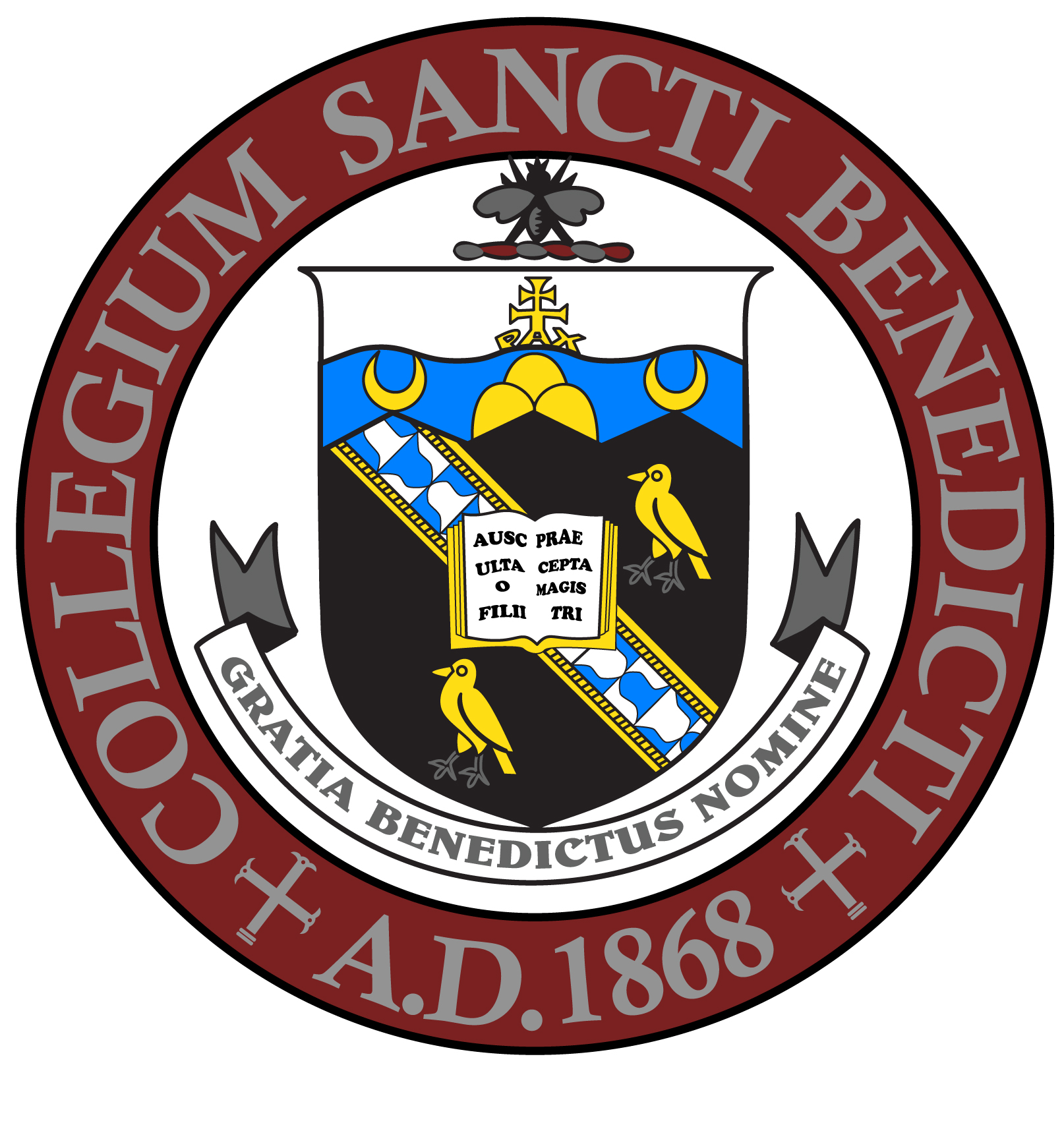 Photo of school seal